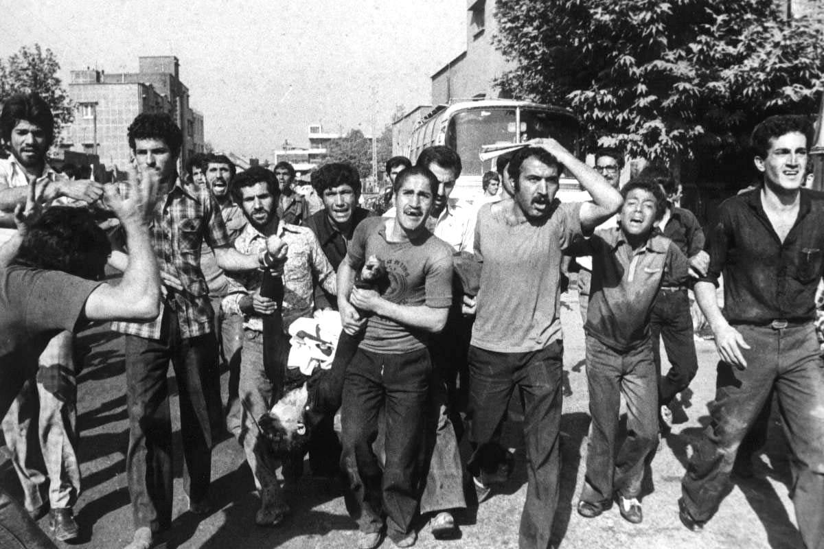 Black Friday (7th od September 1978)